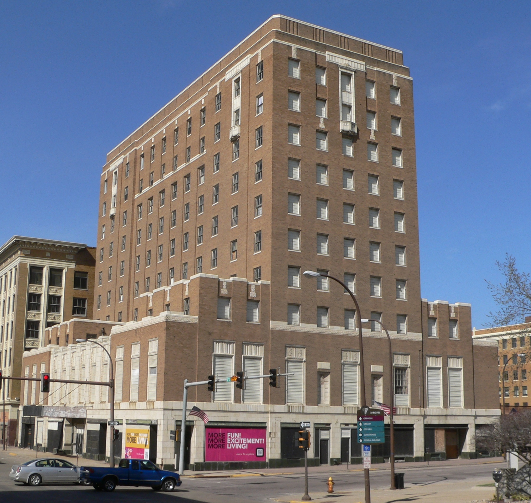 Warrior Hotel, located at northwest corner of 6th and Nebraska Streets in Sioux City, Iowa; seen from the southeast.